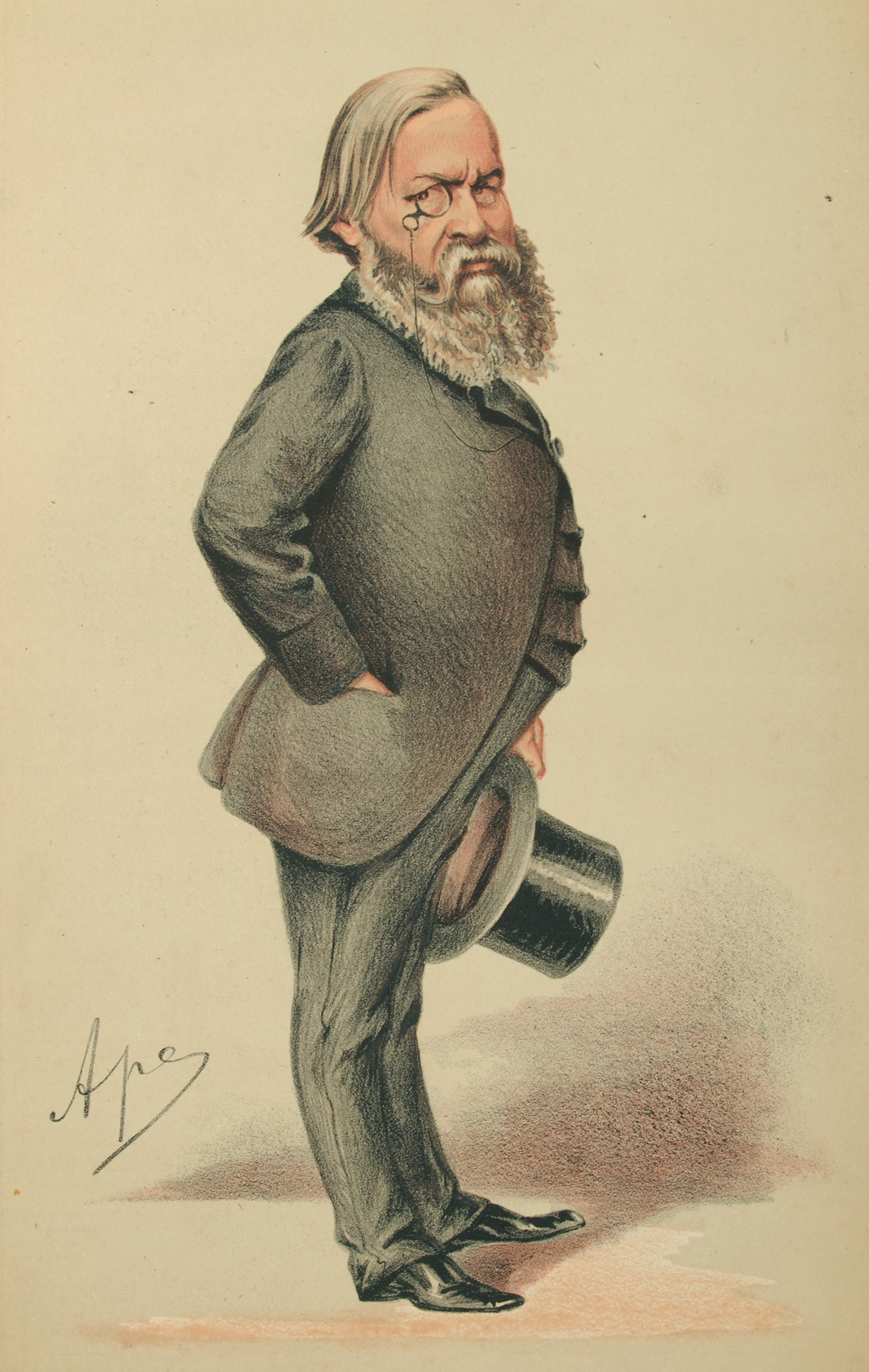 Statesmen No.63: Caricature of Mr Alexander Beresford Hope. Caption reads "Batavian grace".